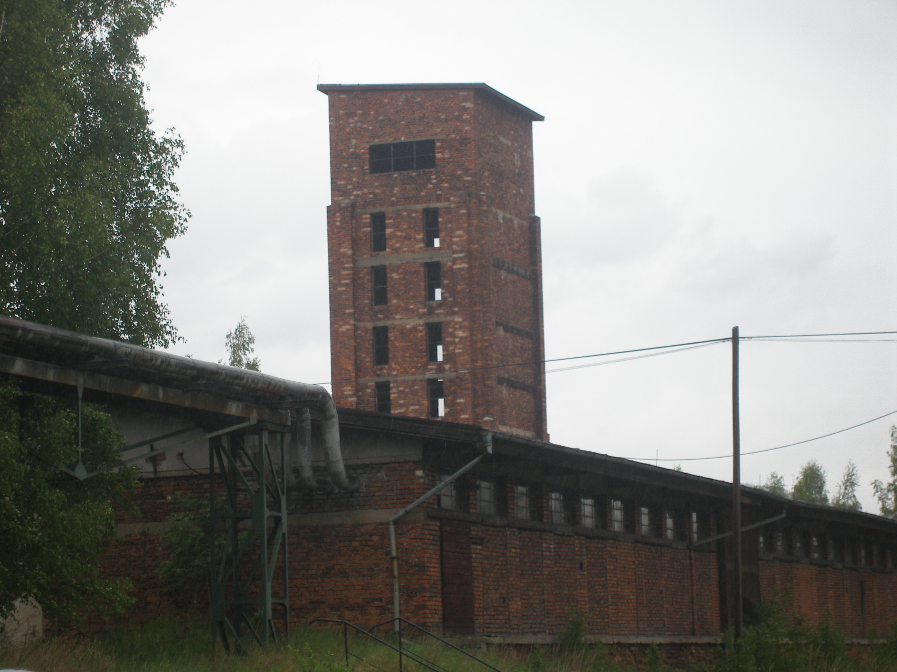 The Red Tower of Death, former uranium ore sorting facility in a labor camp for political prisoners